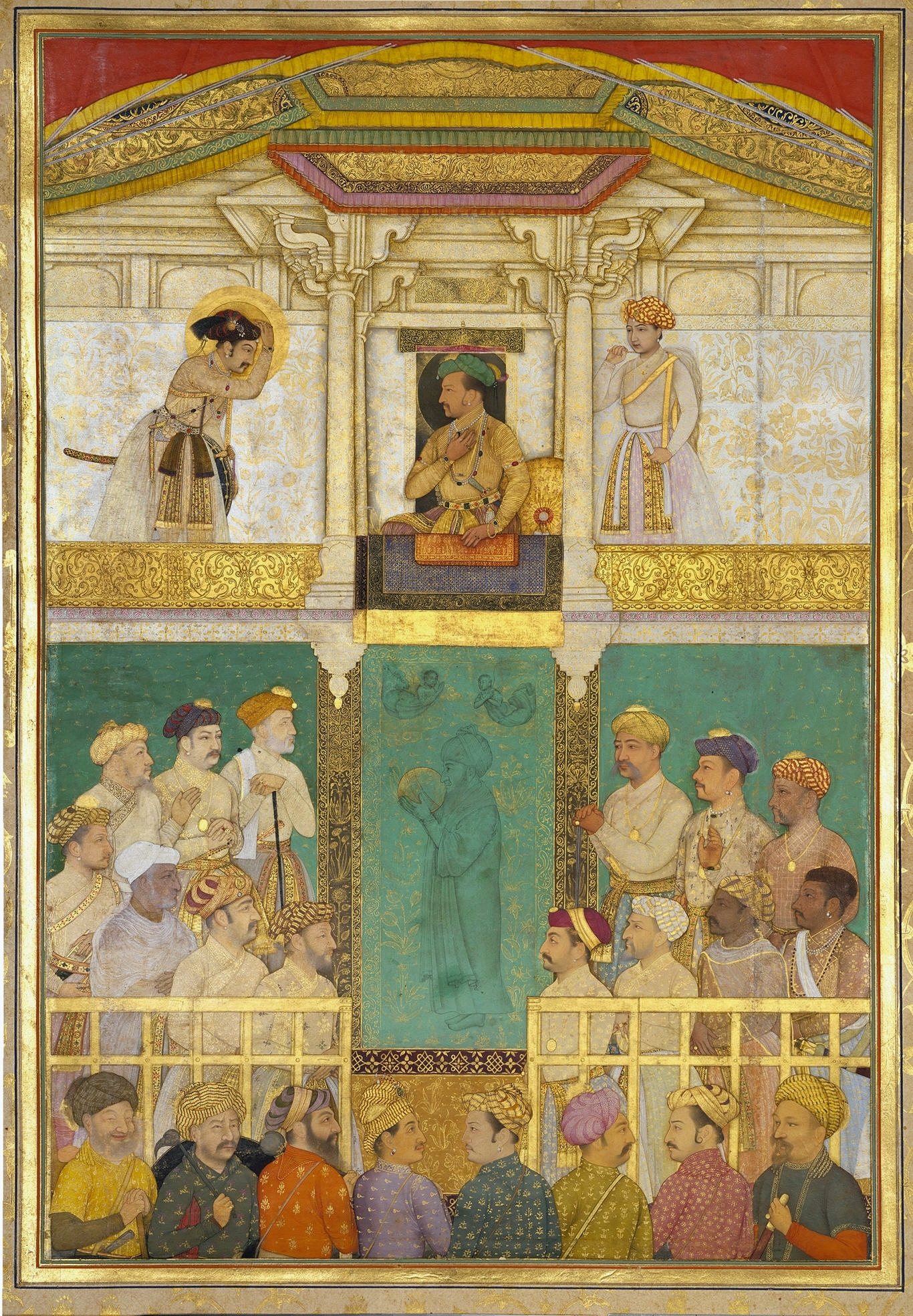 'Abid. Jahangir Receives Prince Khurram, Ajmer, April 1616 Folio 192v from the Windsor Padshahnama, ca. 1635-36 The Royal Library, Windsor Castle